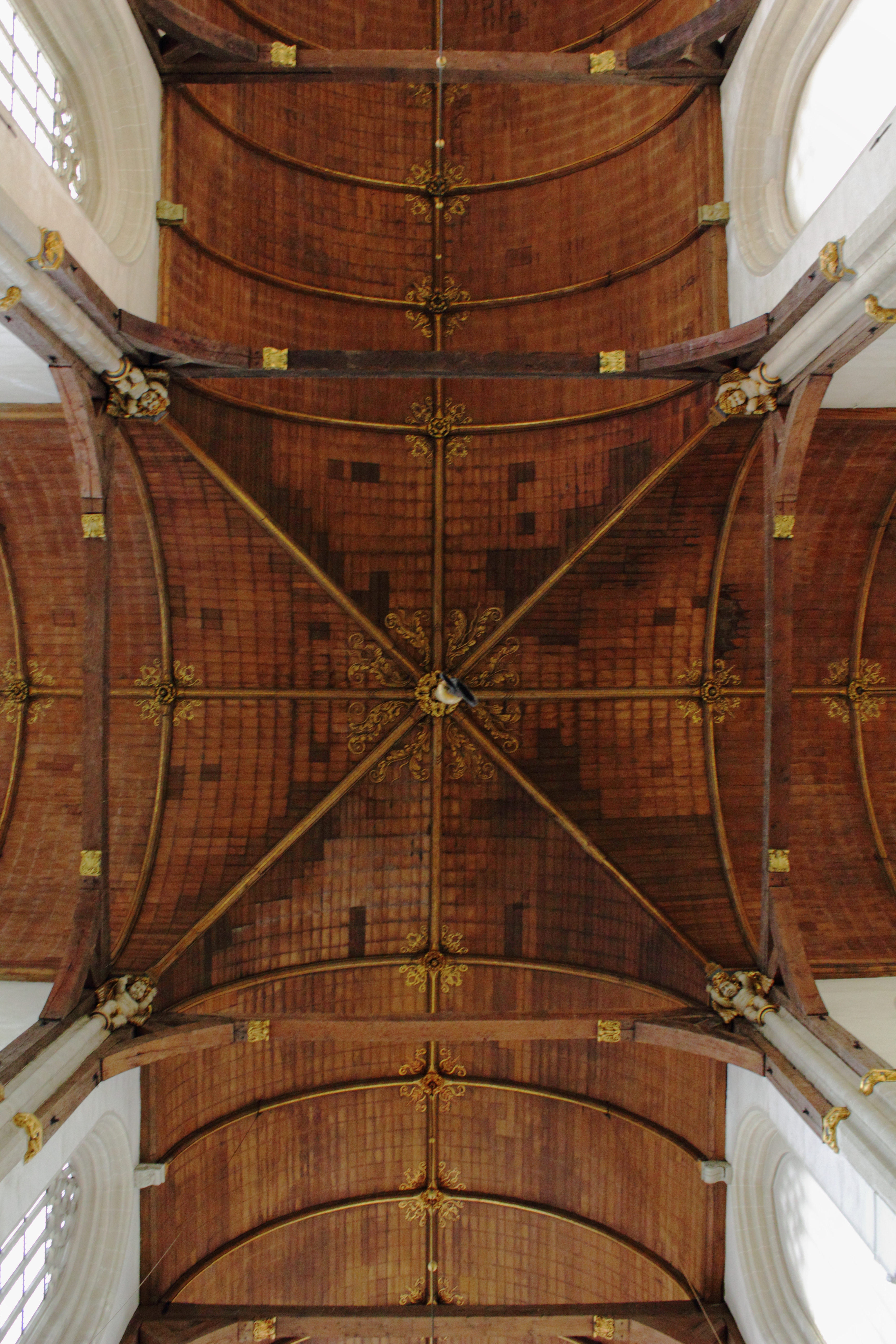 Ceiling of De Nieuwe Kerk (Amsterdam)